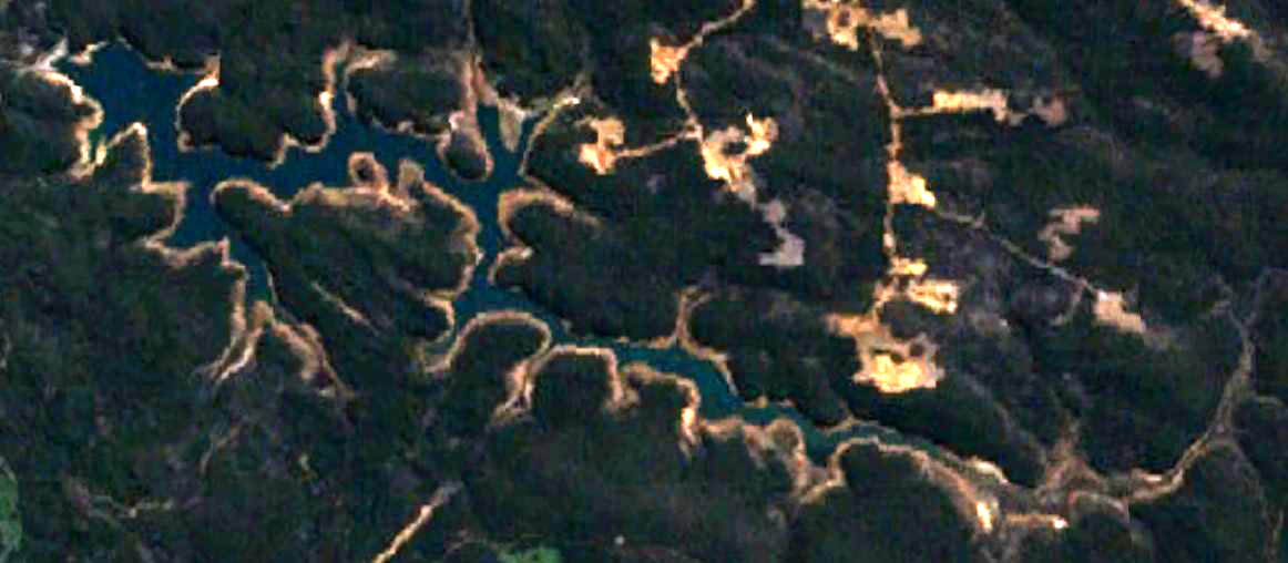 This is an image of Lake Banksiadale, Western Australia.